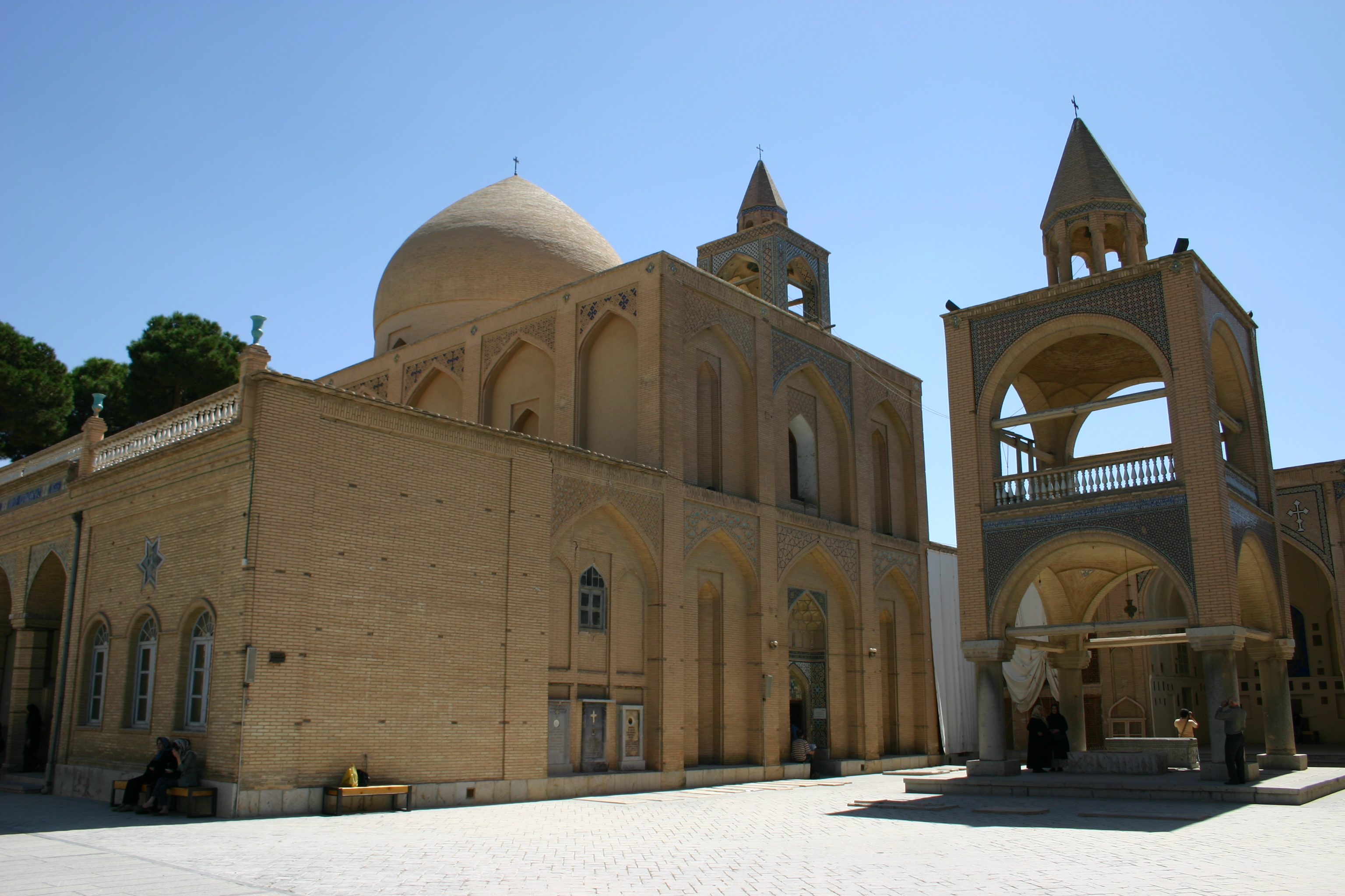 Vank Cathedral, Armenian Quarter, Esfahan, Iran.